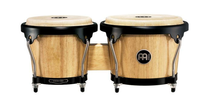 Bongos Meinl HB100-NT